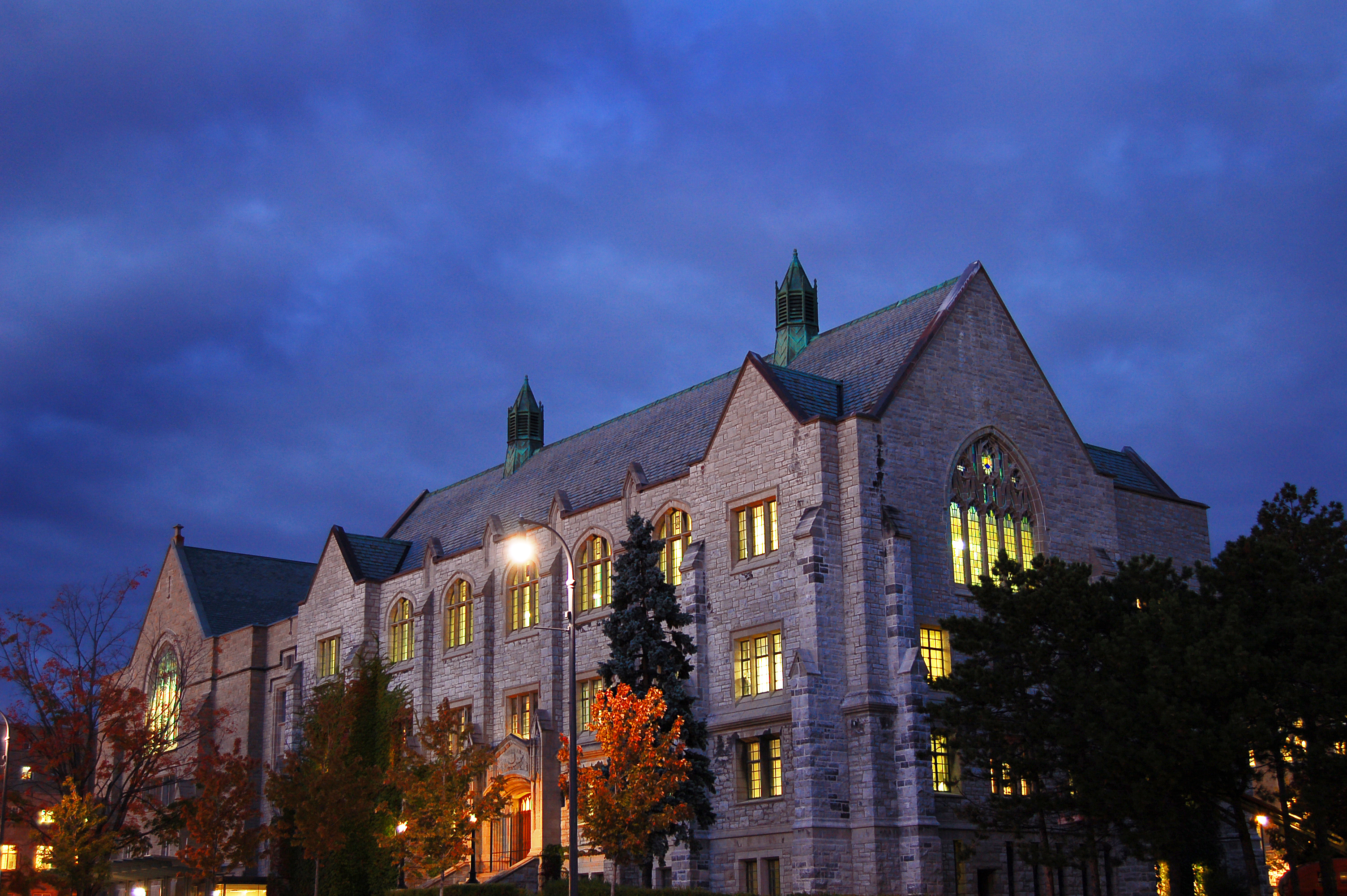 Douglas Library, one of the iconic buildings of Queen's University, at dusk.